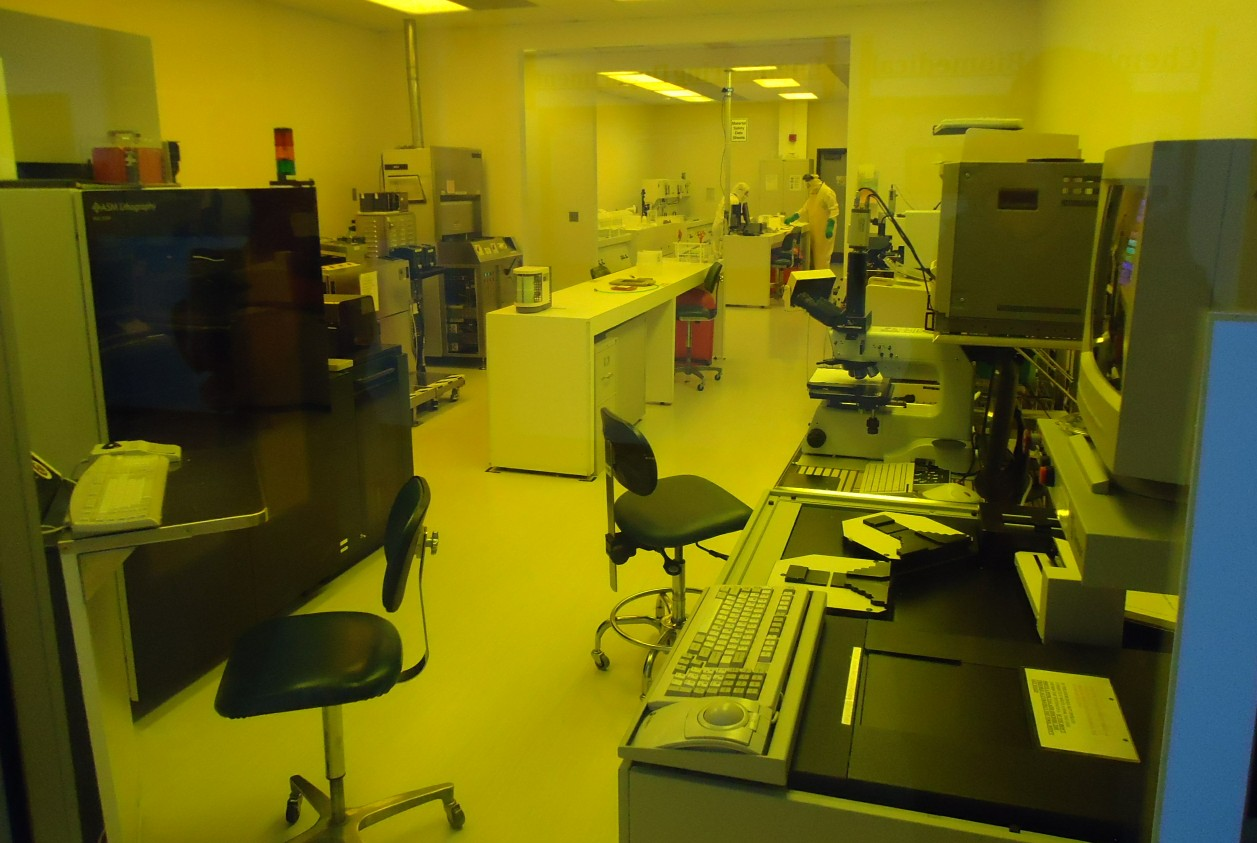 Photolithography cleanroom (17-2750) in Engineering Hall (17) at the Rochester Institute of Technology.